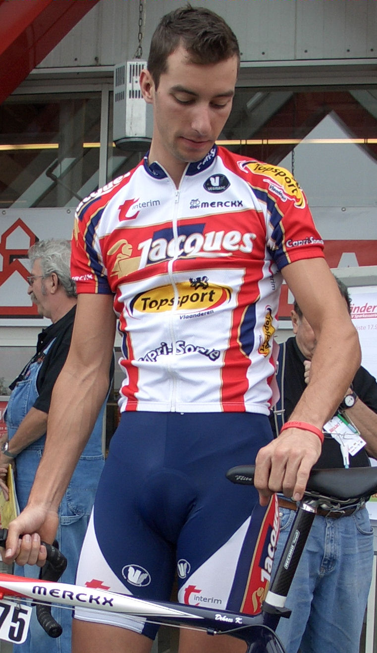 Kenny De Haes